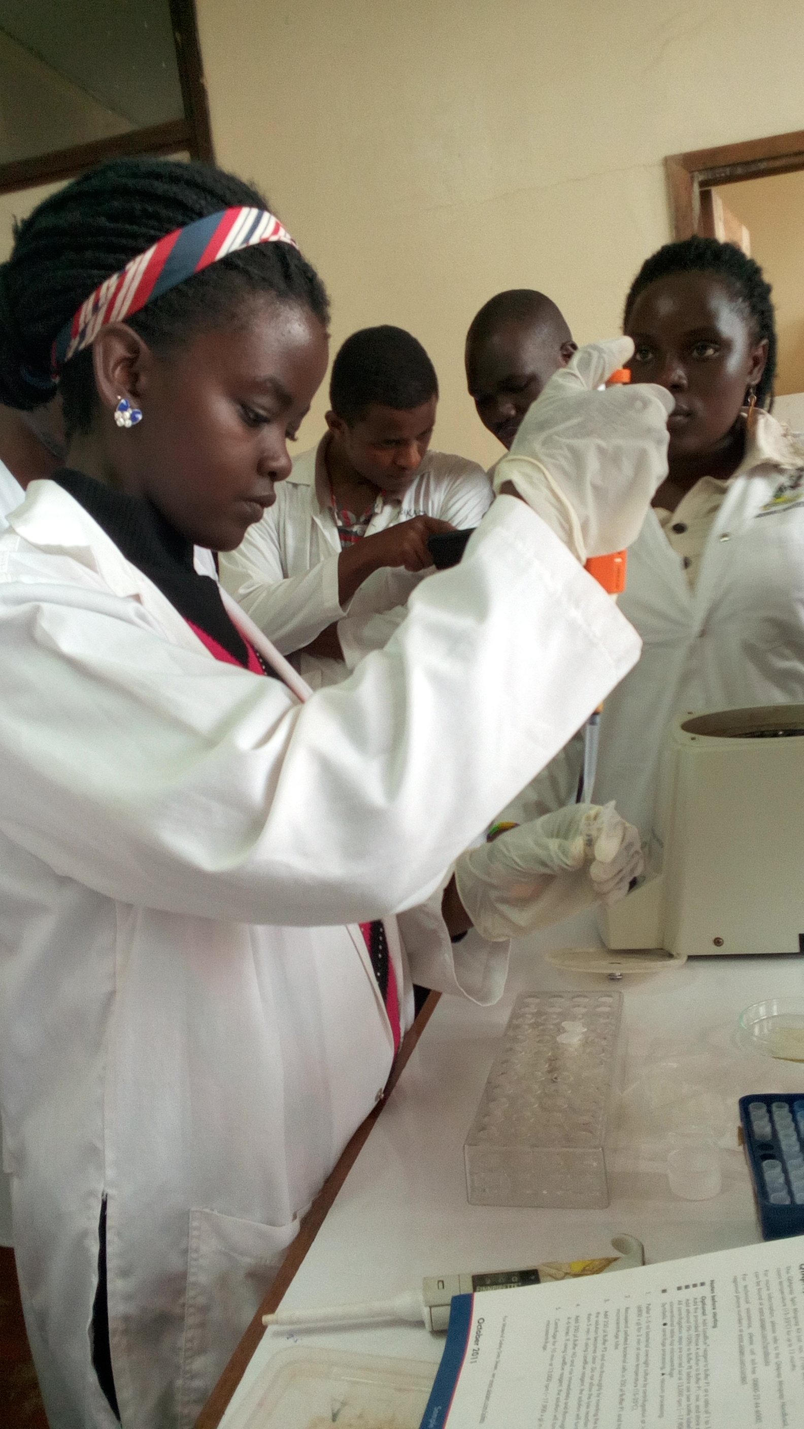 A laboratory technologist pipetting a small volume This is an image of "African people at work" from Uganda